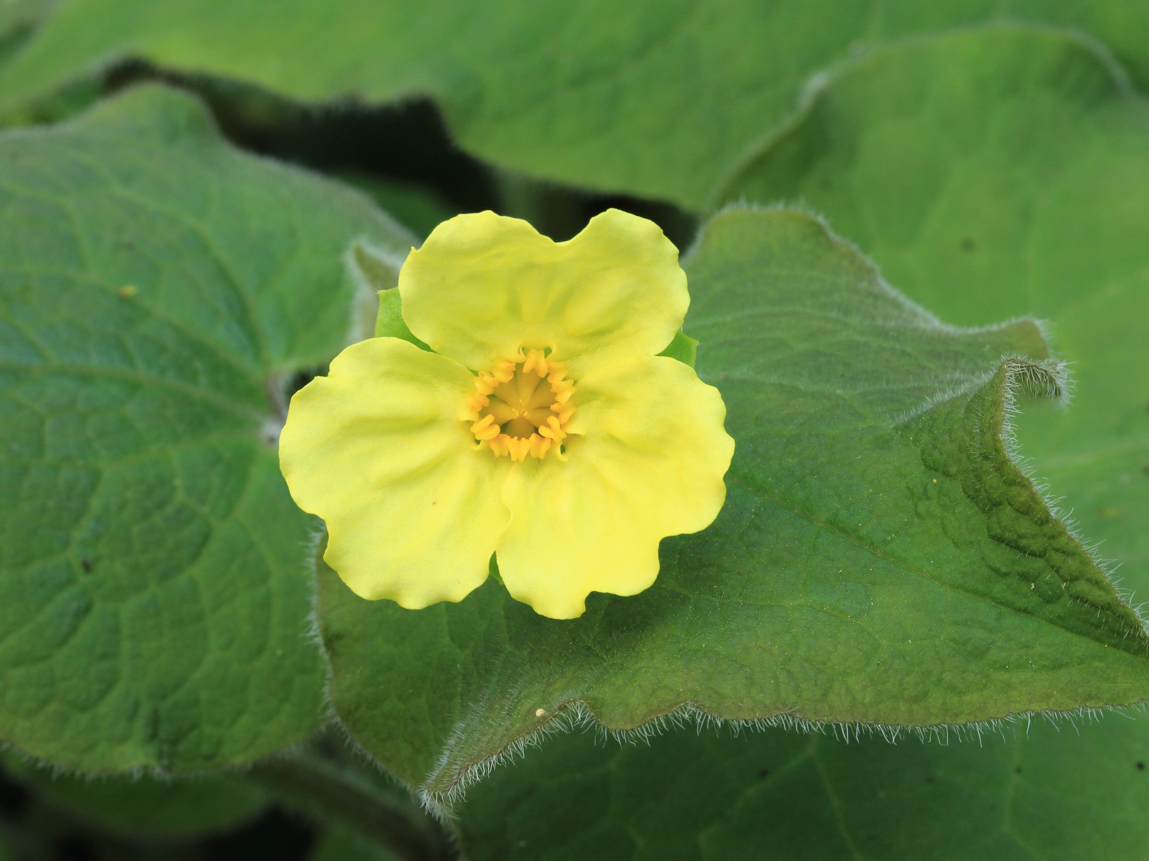 Saruma henryi. Beautiful plant in semi-shade with velvety leaves cuddly.